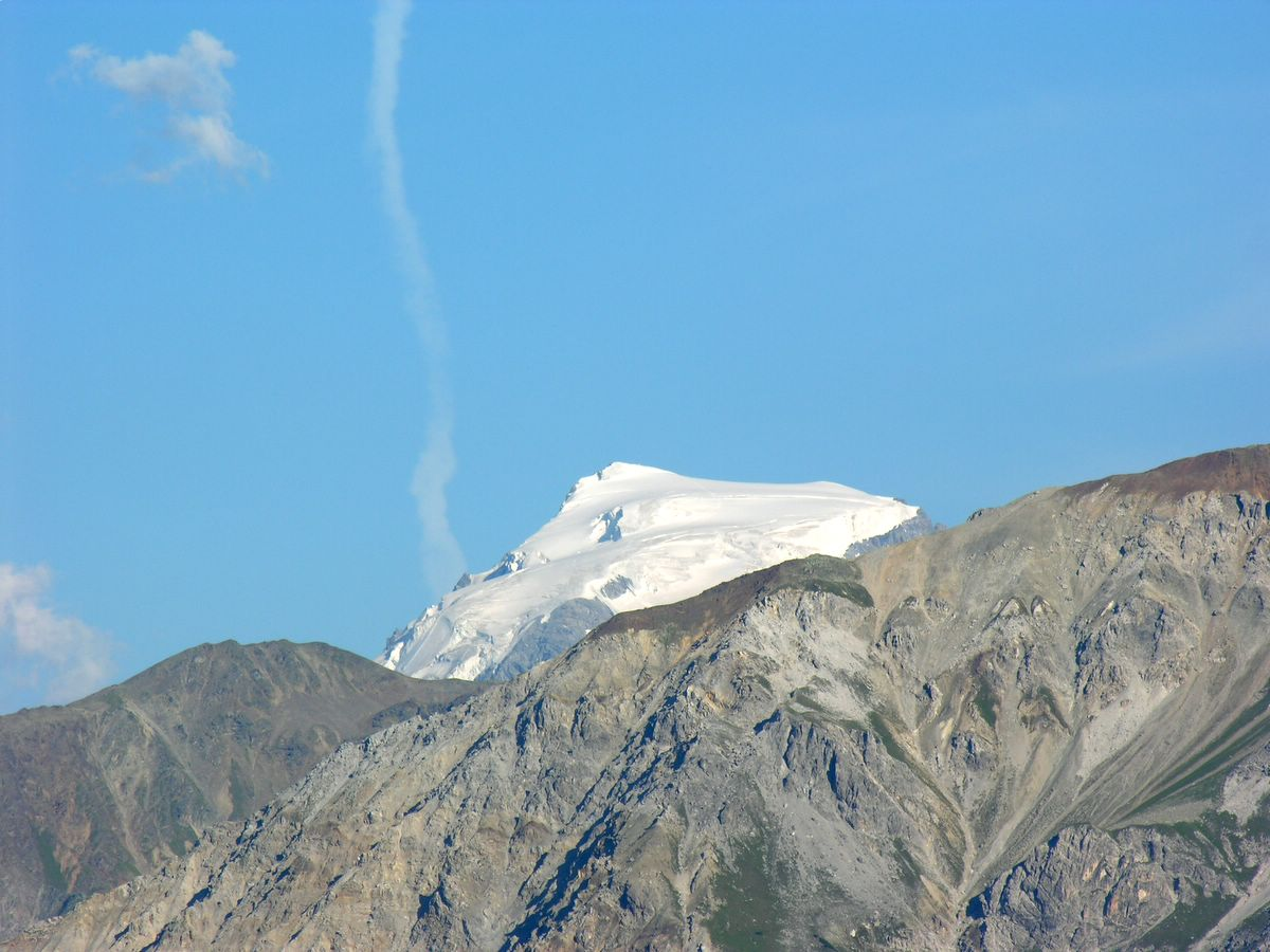 Swiss National Park